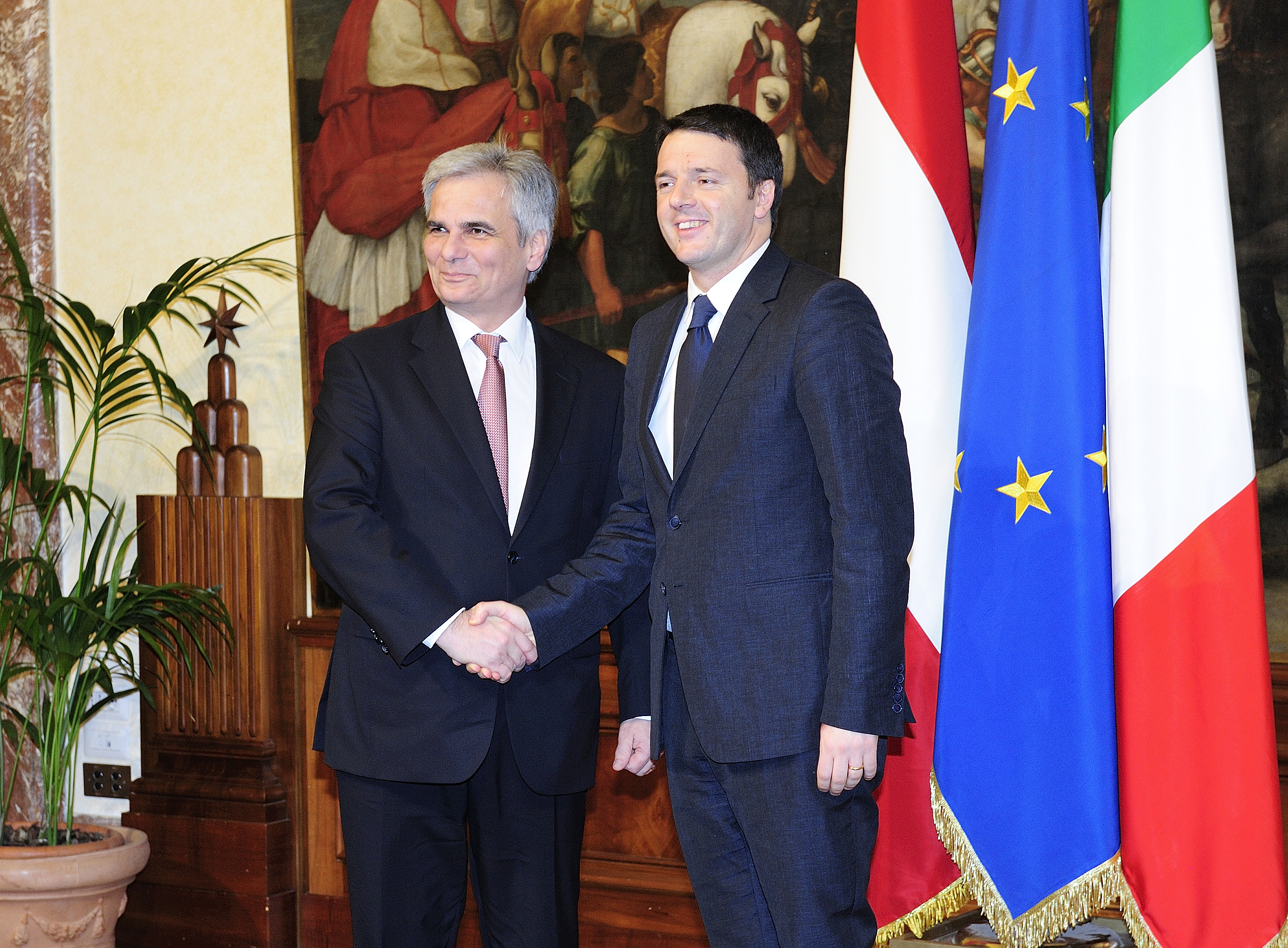 Matteo Renzi and Werner Faymann